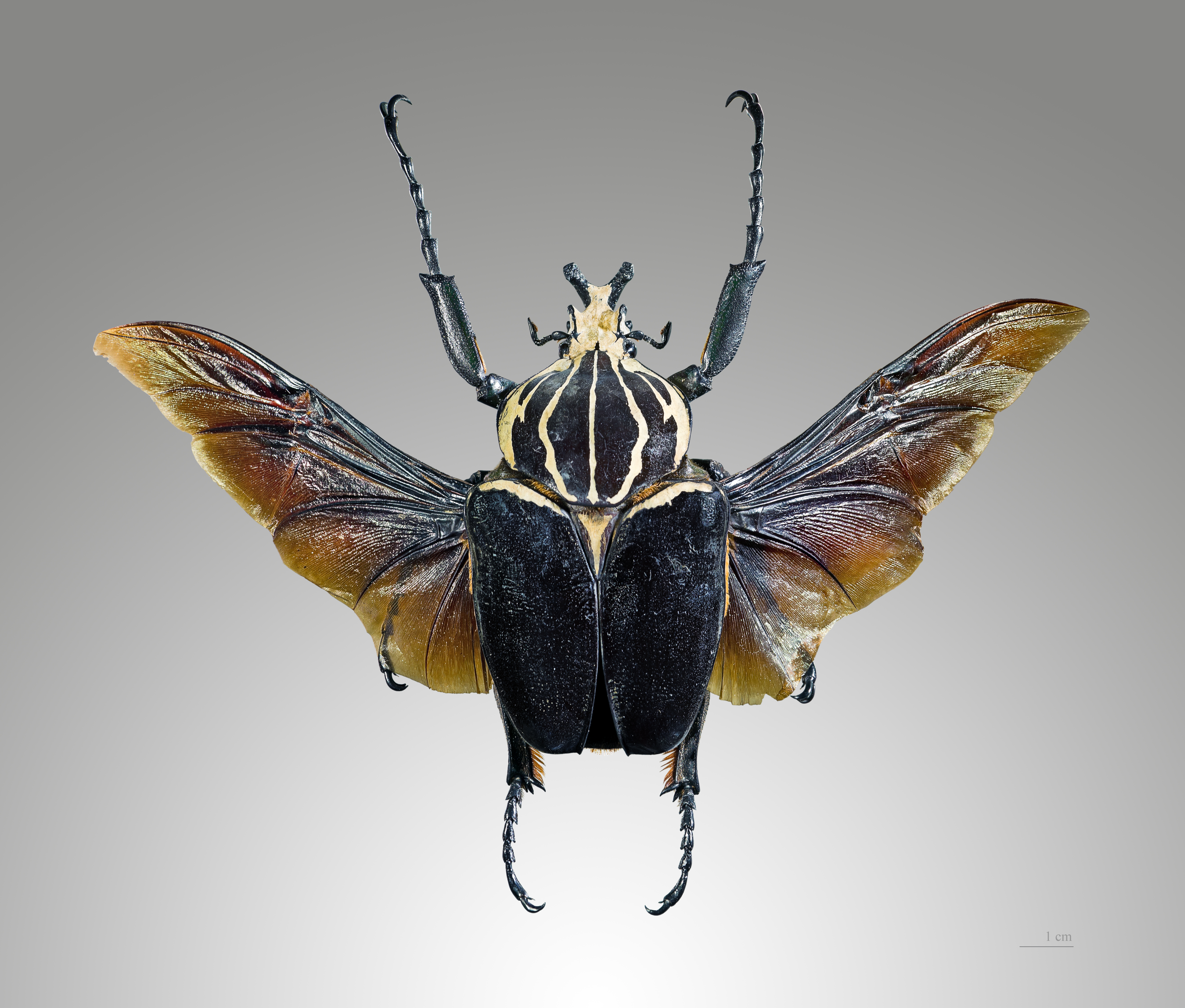 ♂ - Flying position Locality : Central African Republic.